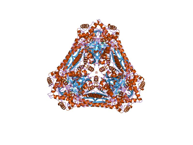 Cartoon representation of the molecular structure of protein registered with 1fui code.